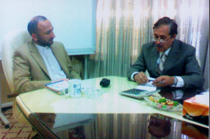 Massoud Nawabi discussing about the inauguration of a new school for Afghan Refugees in Pakistan